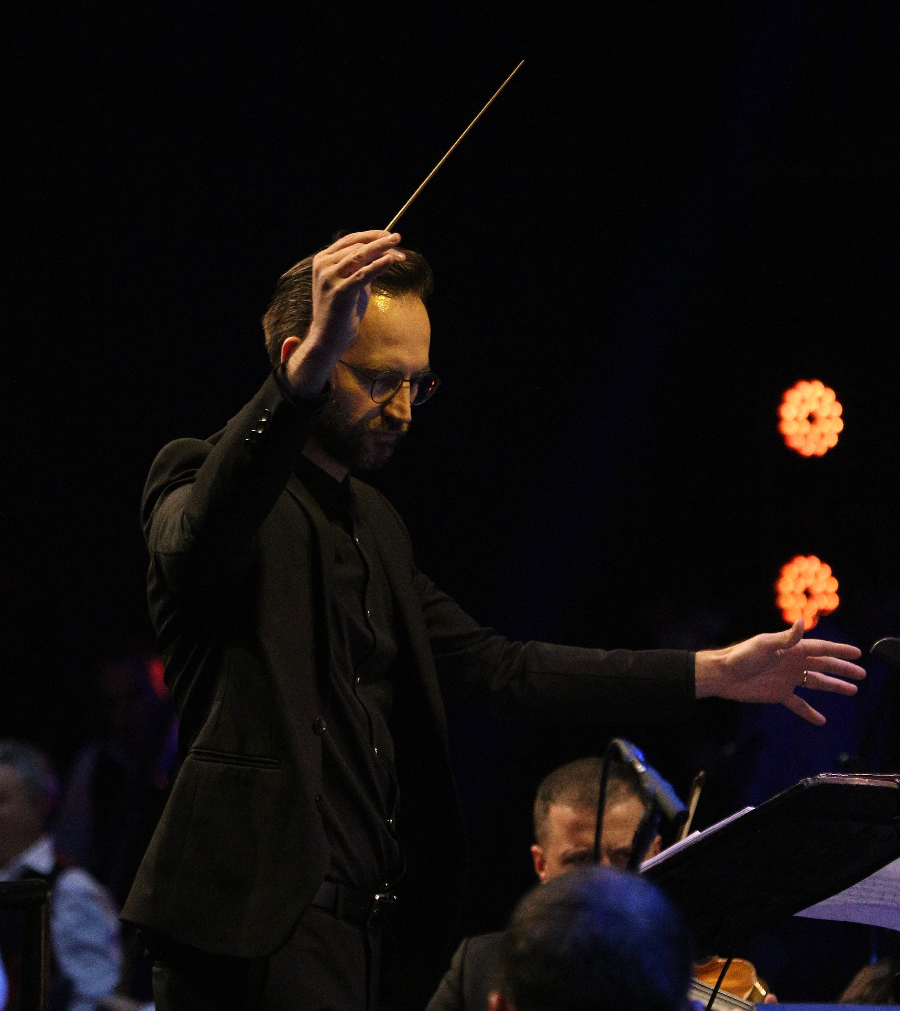 Fatrin Krajka conducting an orchestra